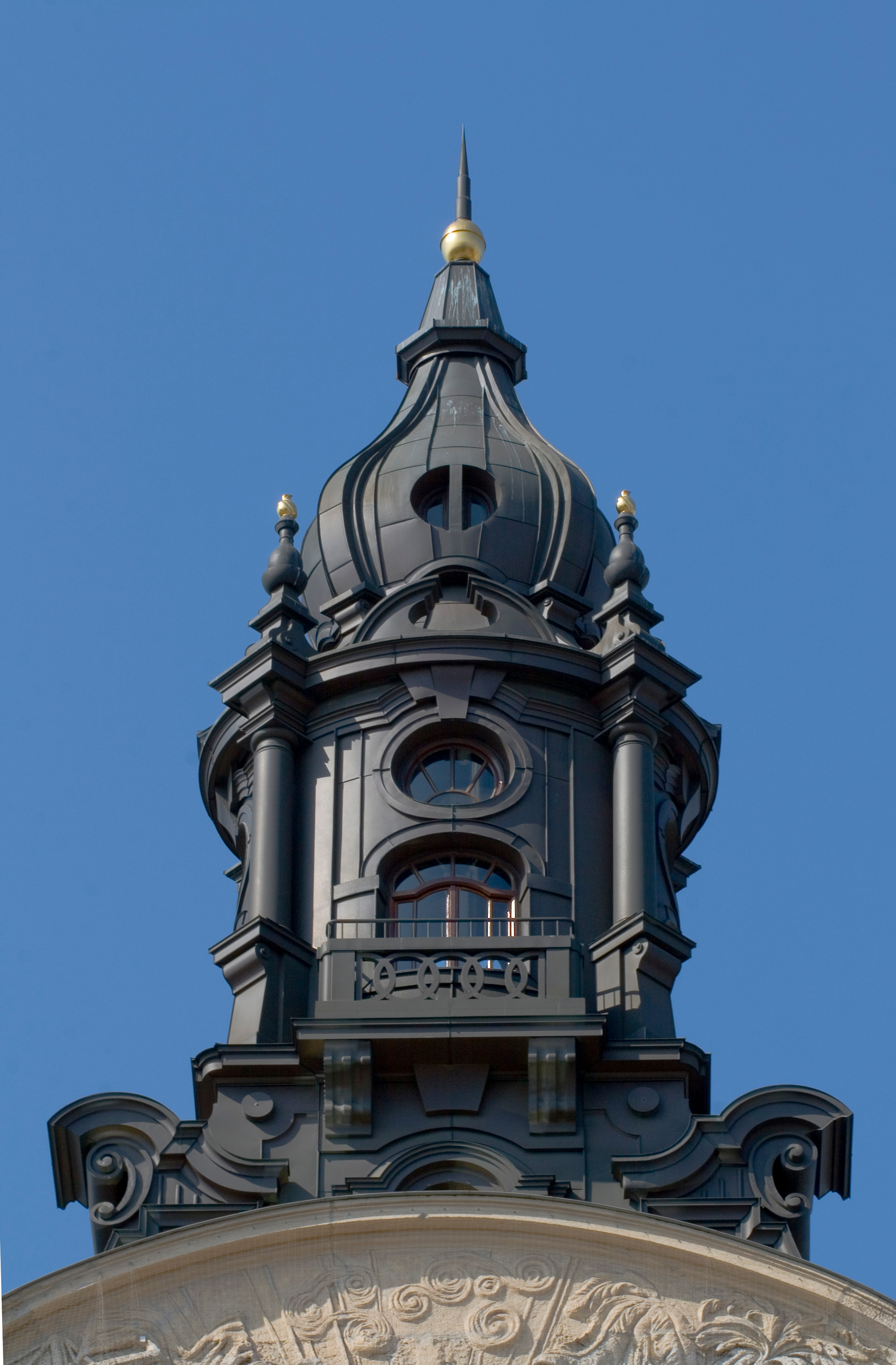 Bernheimer Haouse, Munich, Germany